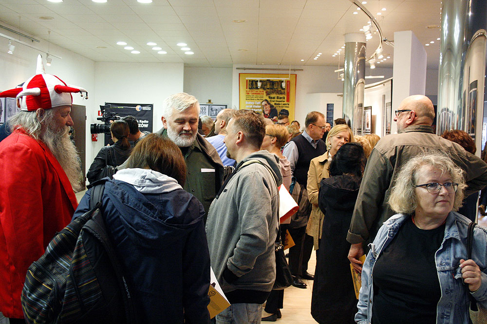 18 edycja festiwalu "Satyrblues" (Tarnobrzeg 16.09.2017).